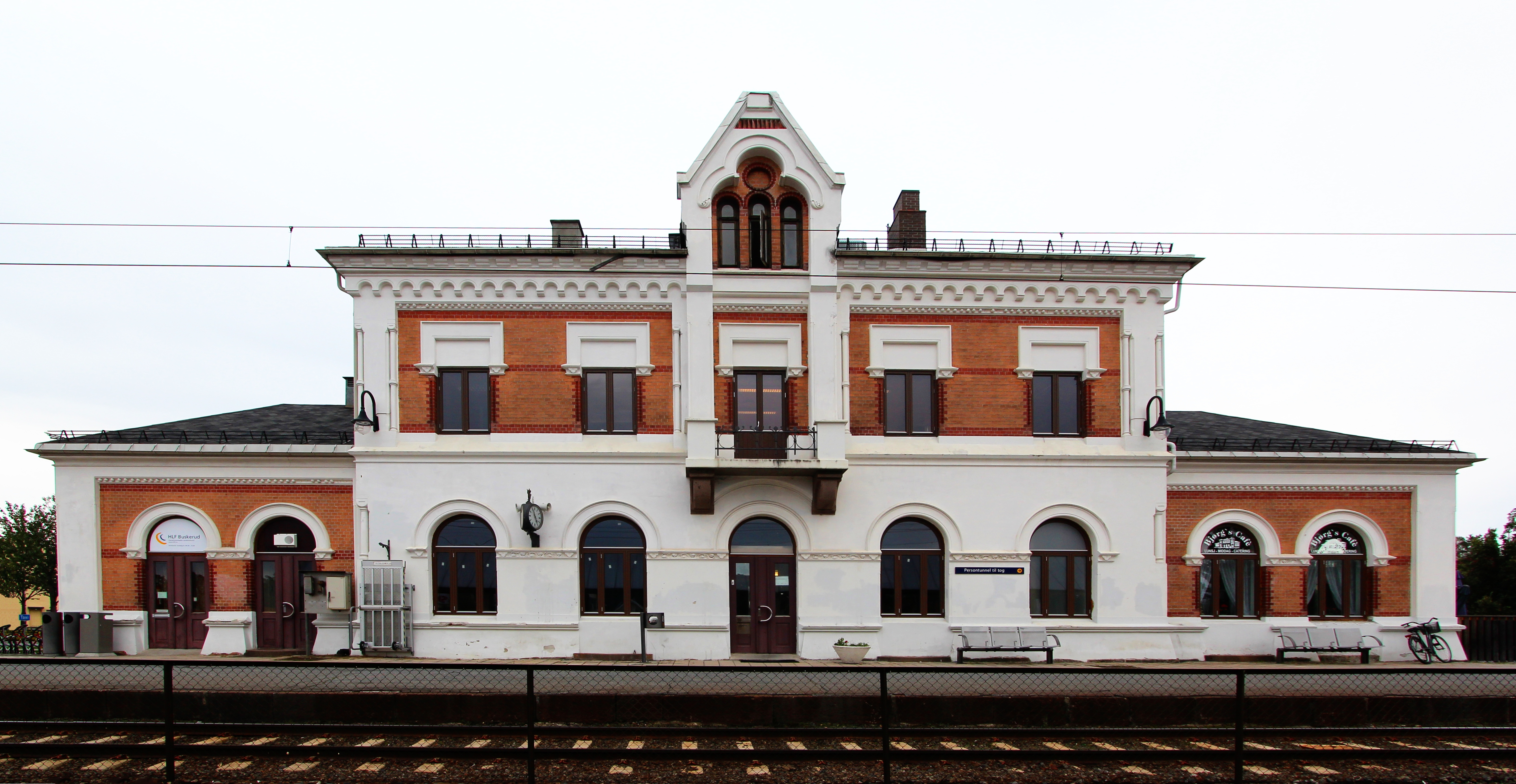 Hokksund railway station, as seen from the tracks.